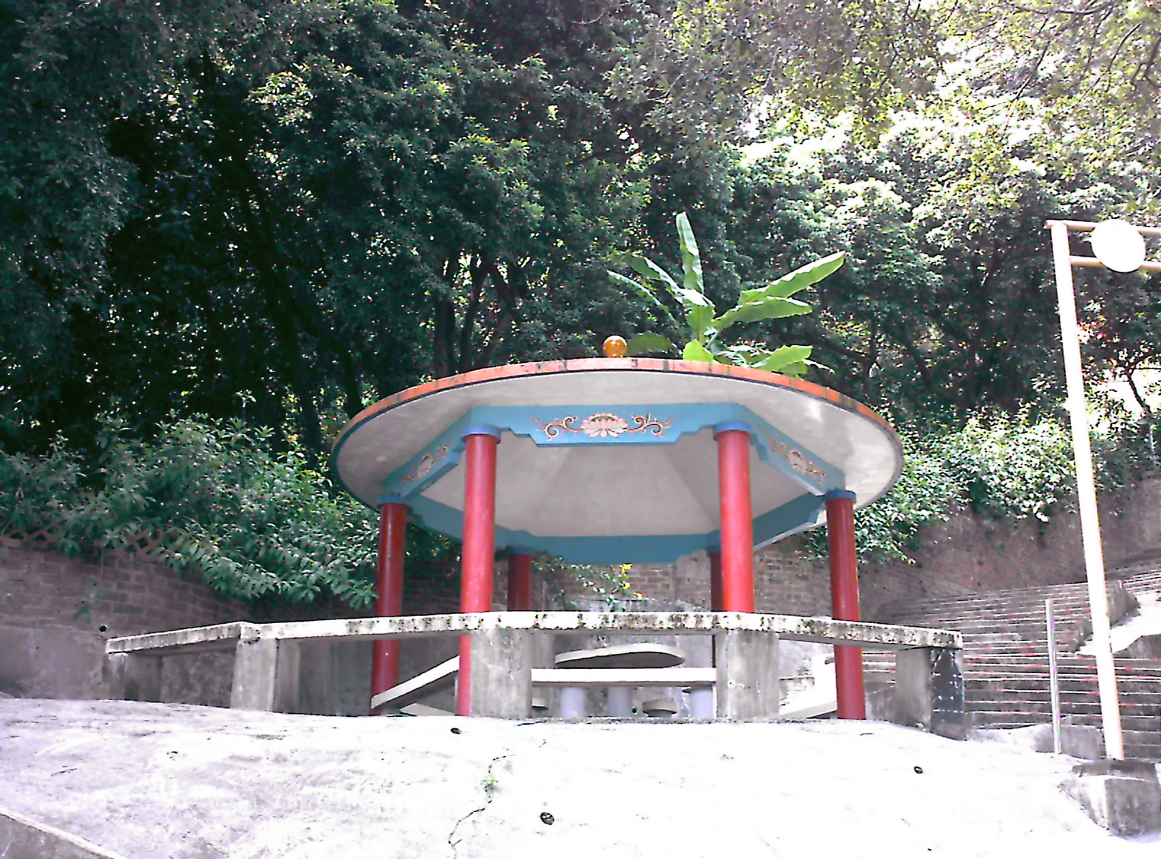 Circular Pavilion, Hong Kong and Kowloon Fuk Tak Buddhist Association 中文（香港）: 港九福德念佛社，圓頂涼亭